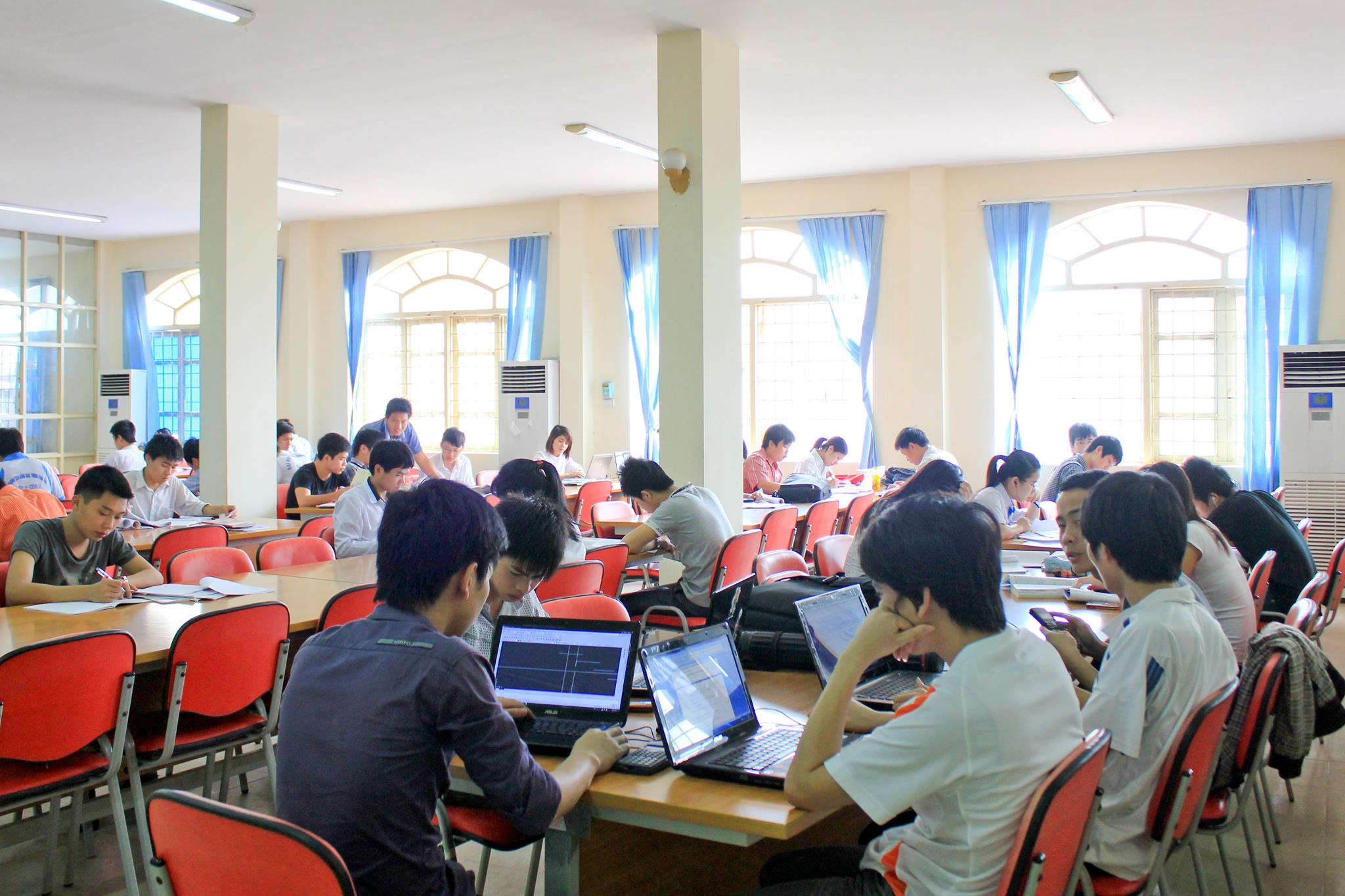 Thư viện tại cơ sở đào tạo Hà Nội